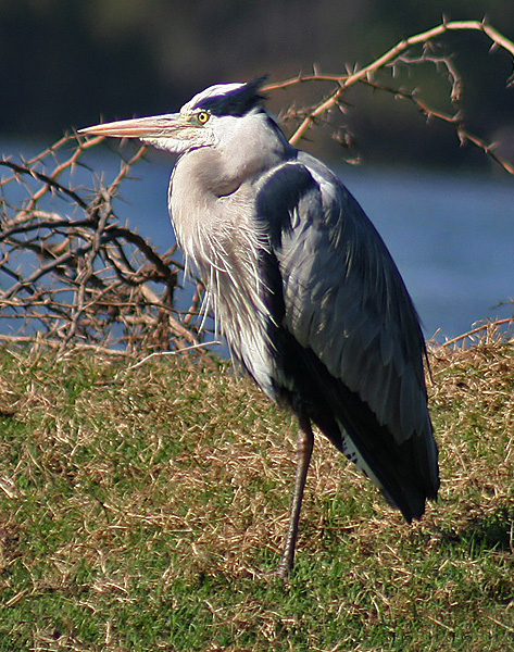 Grey Heron Ardea cinerea at Bharatpur, Rajasthan, India.